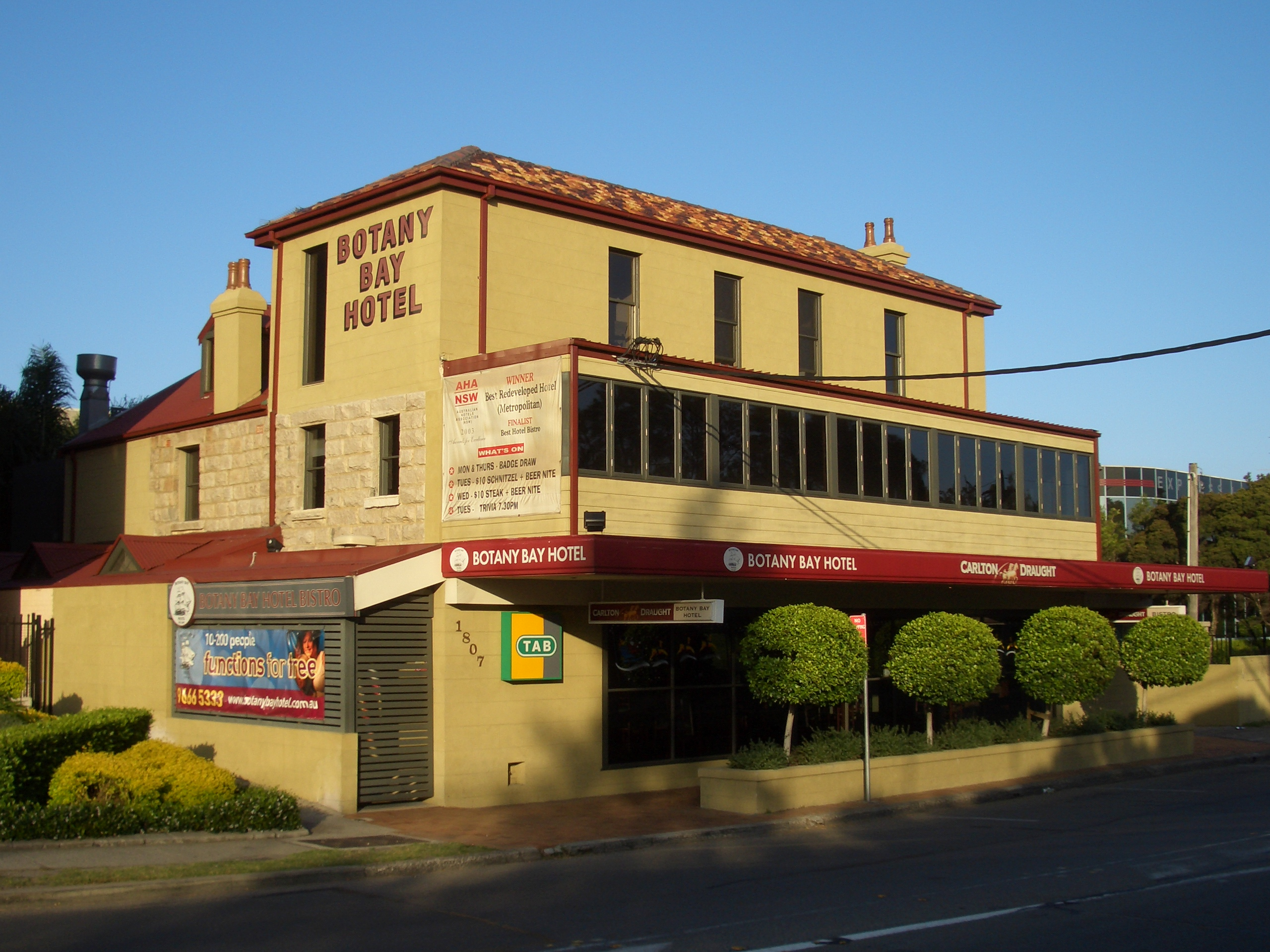 Botany Bay Hotel, Banksmeadow, Sydney